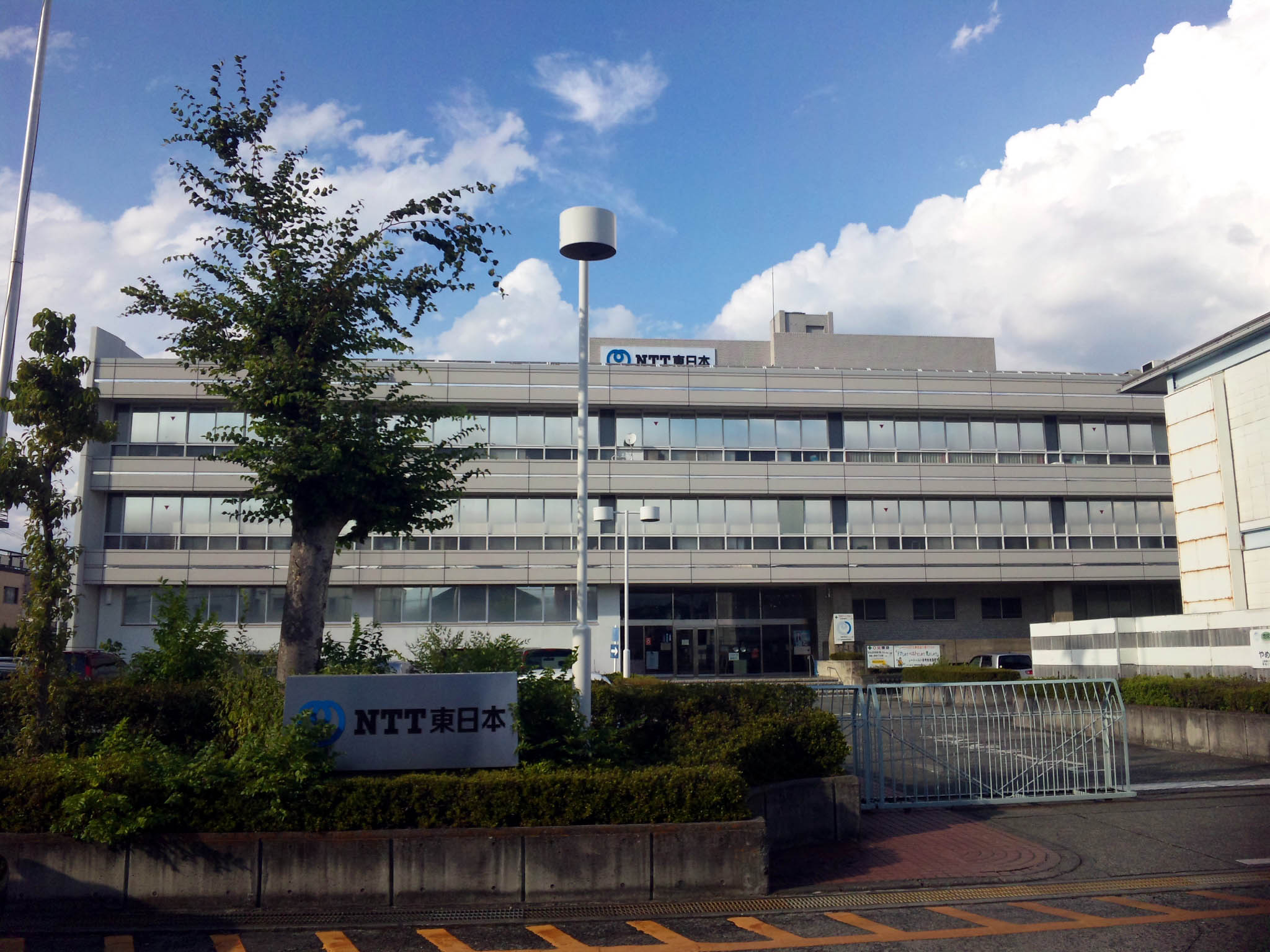 NTT EAST YAMANASHI